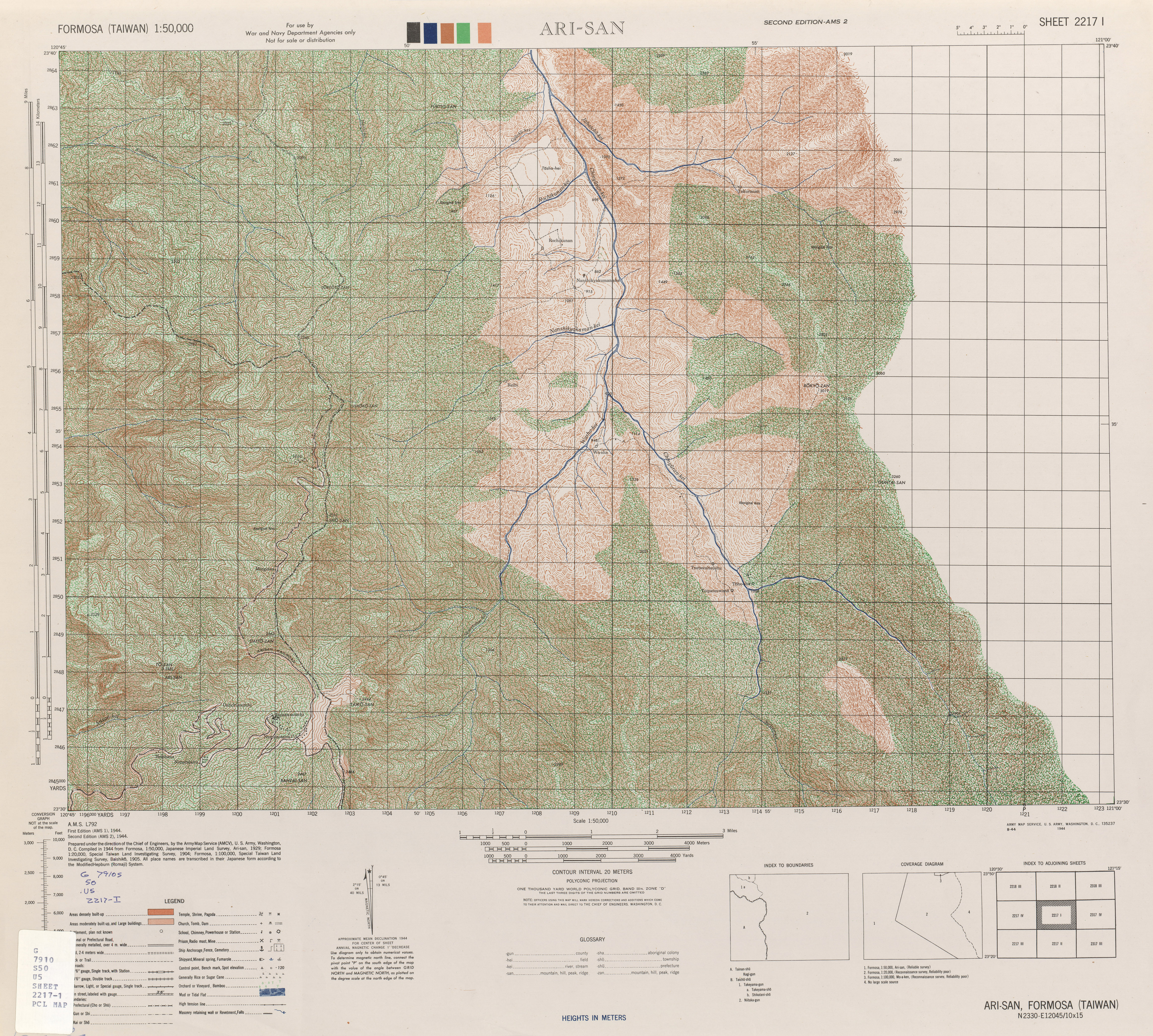 Maps from Formosa (Taiwan) 1:50,000 AMS Series L792